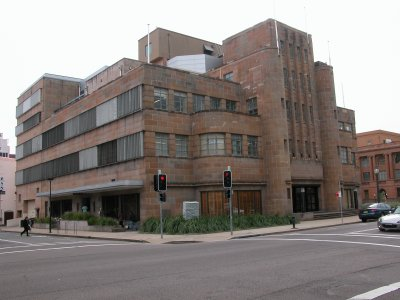 University House, Newcastle, New South Wales: Nesca House